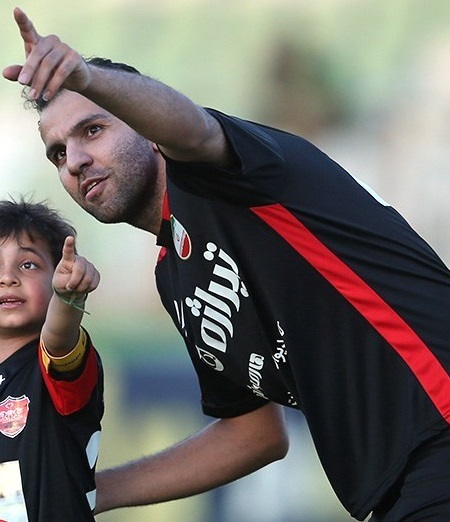 Mohsen Khalili in Hadi Norouzi's memorial match